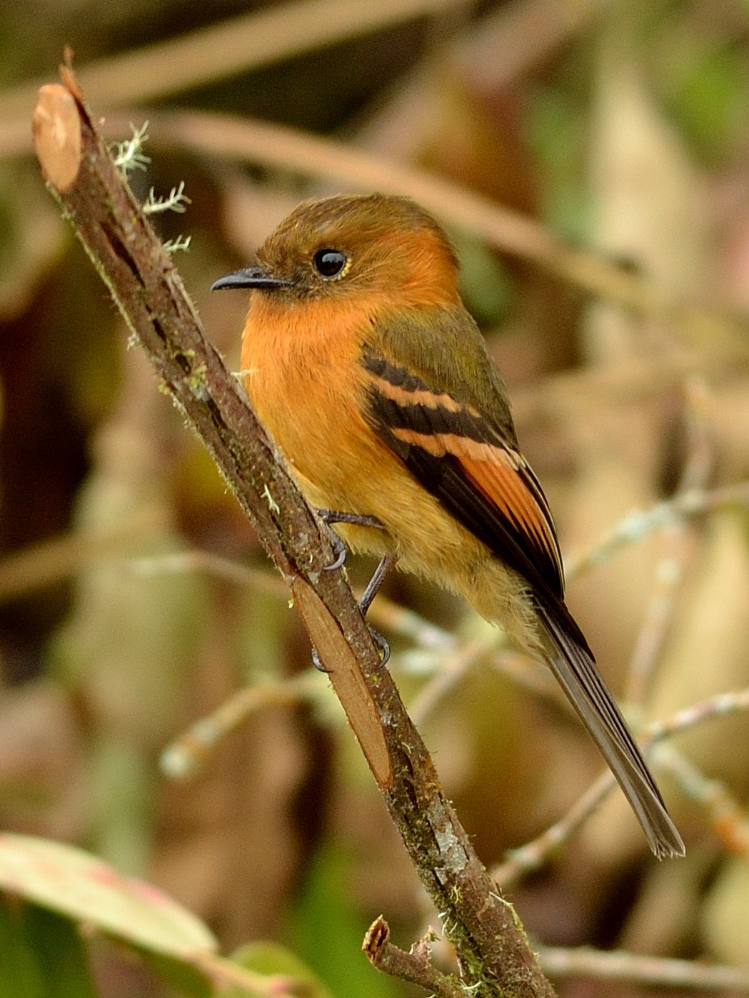 Cinnamon Flycatcher